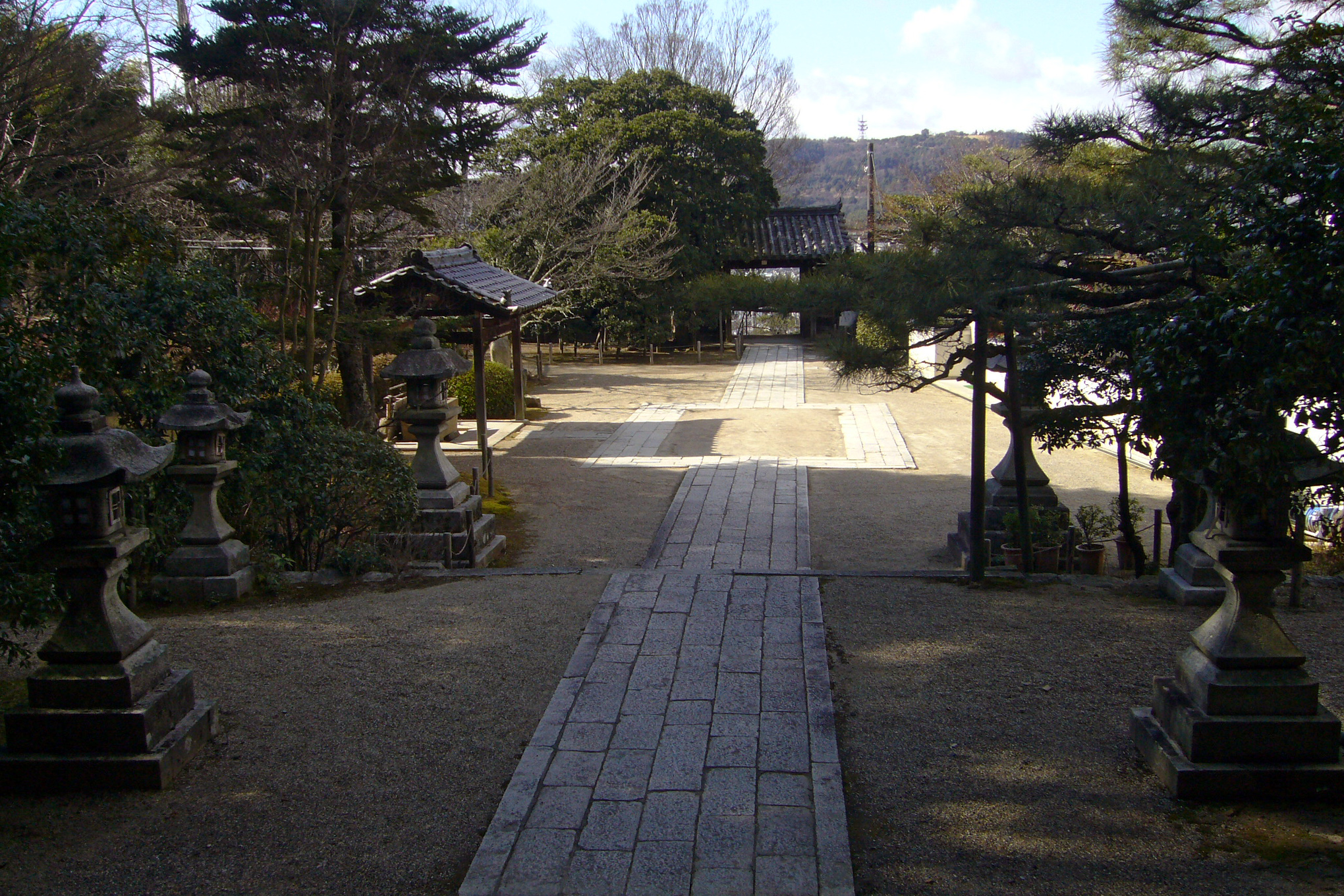 Ichigonji in Kyoto, Kyoto prefecture, Japan